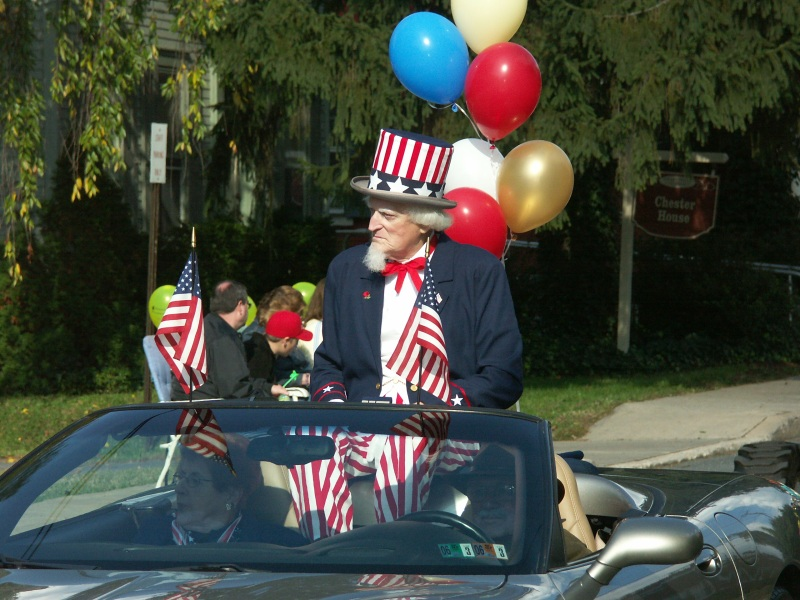 Uncle Sam